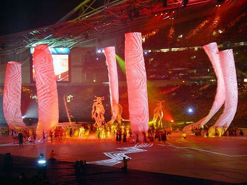 part of the rugby world cup opening ceremony (Flickr)